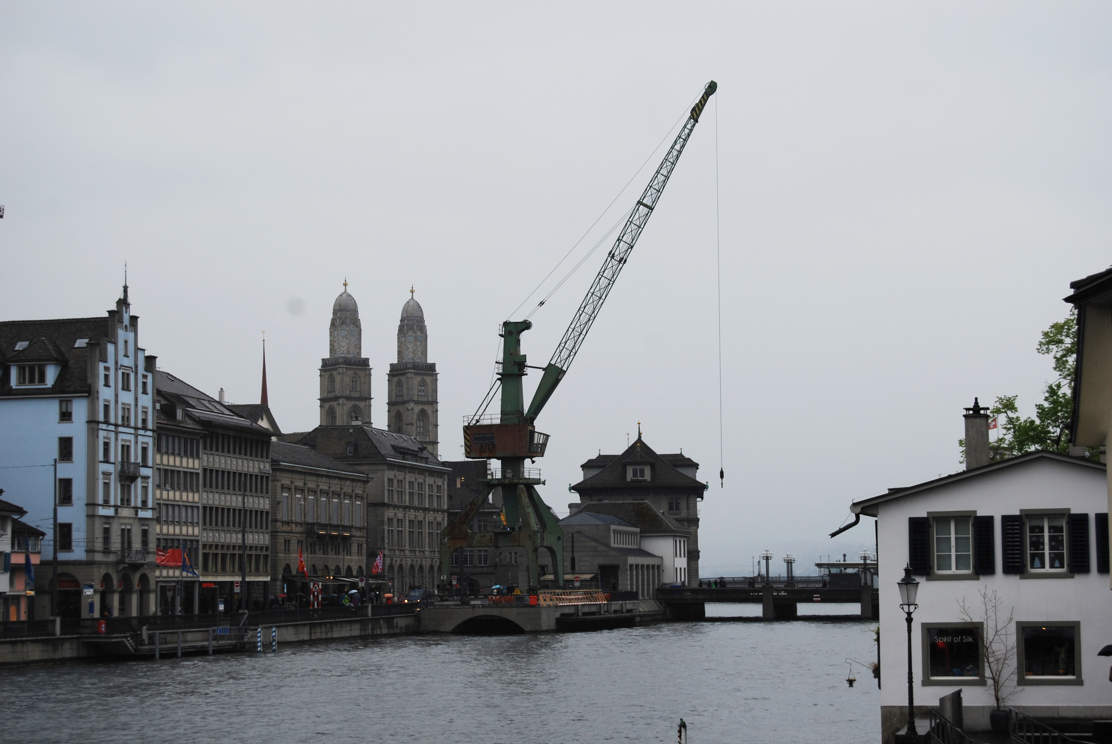 Port crane of Zürich, canton of Zürich, Switzerland